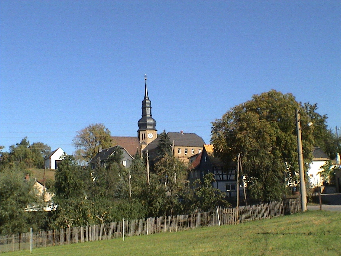 Heukewalde in the district of Altenburg (East Thuringia)